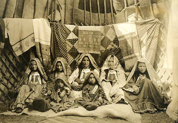 A group of women in national clothes in a tent. The Bashkirs. Ufa Governor. Photoarchive. Russian Museum of Ethnography